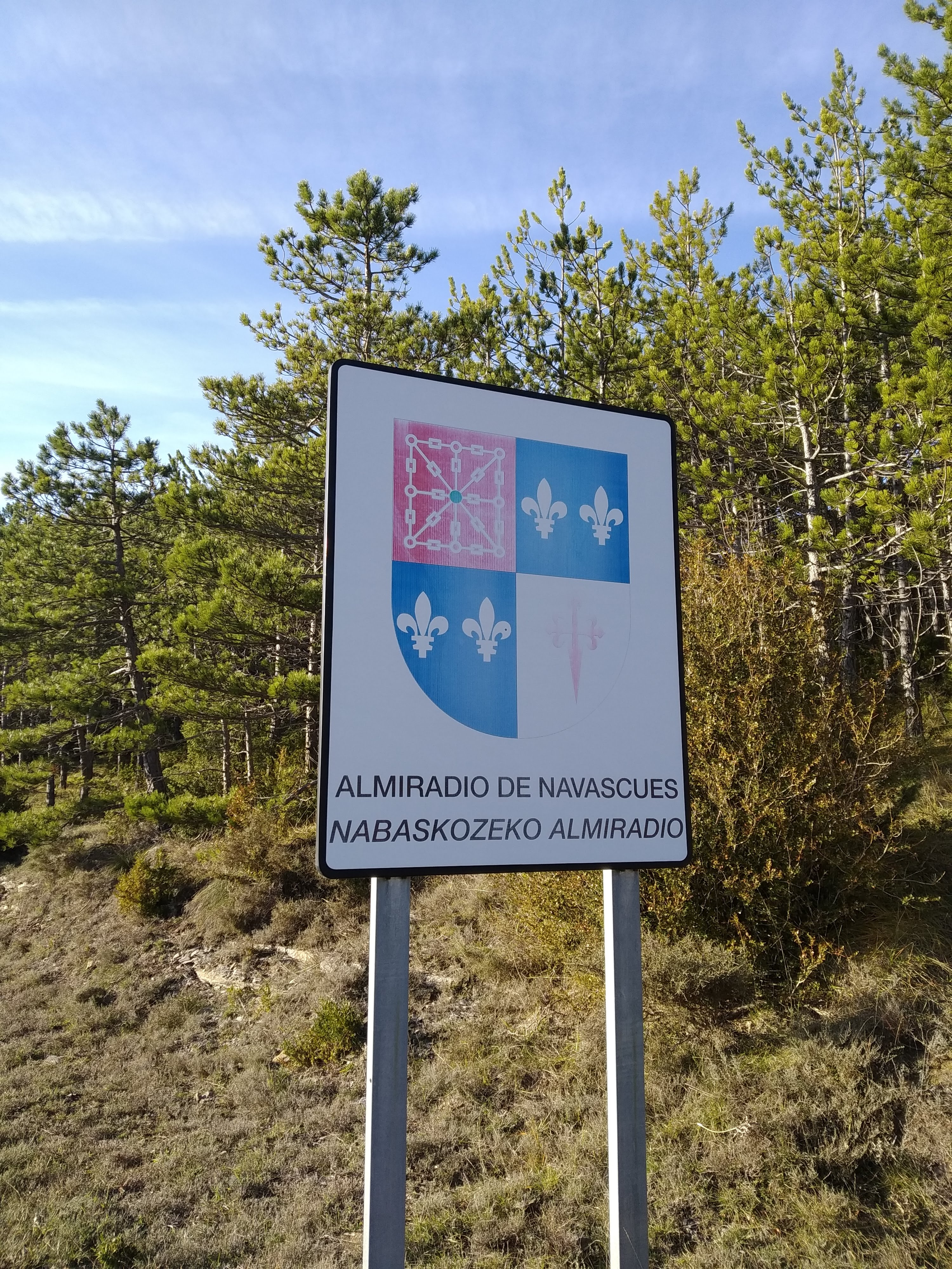 Entry signpost to Nabaskoze (Navarre). Defines the municipality as an 'almiradio', old administrative territorial term used in the Kingdom of Navarre, now surviving in use only in Nabaskoze. Term related to Admiralty, as an admiral or almirante governed the almiradio.